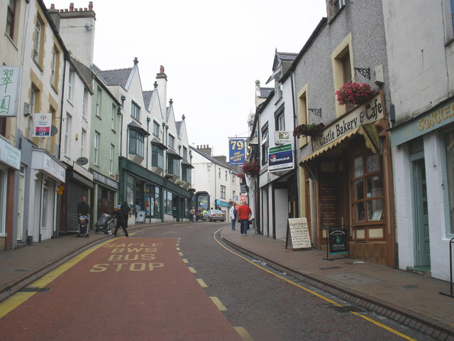 Market Street, Holyhead